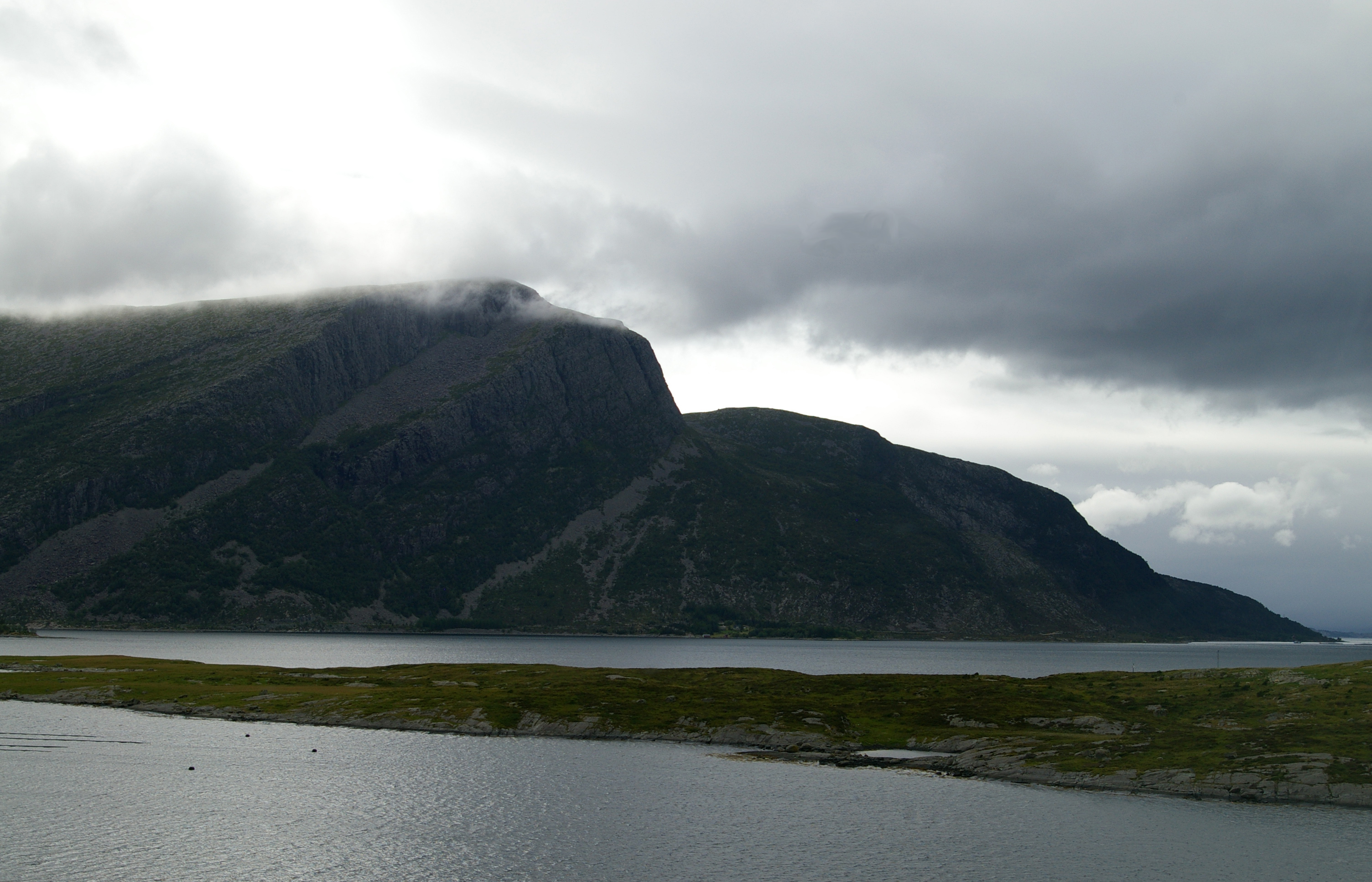 Midtgulen, a fjord in Bremanger, Sogn og Fjordane, Norway